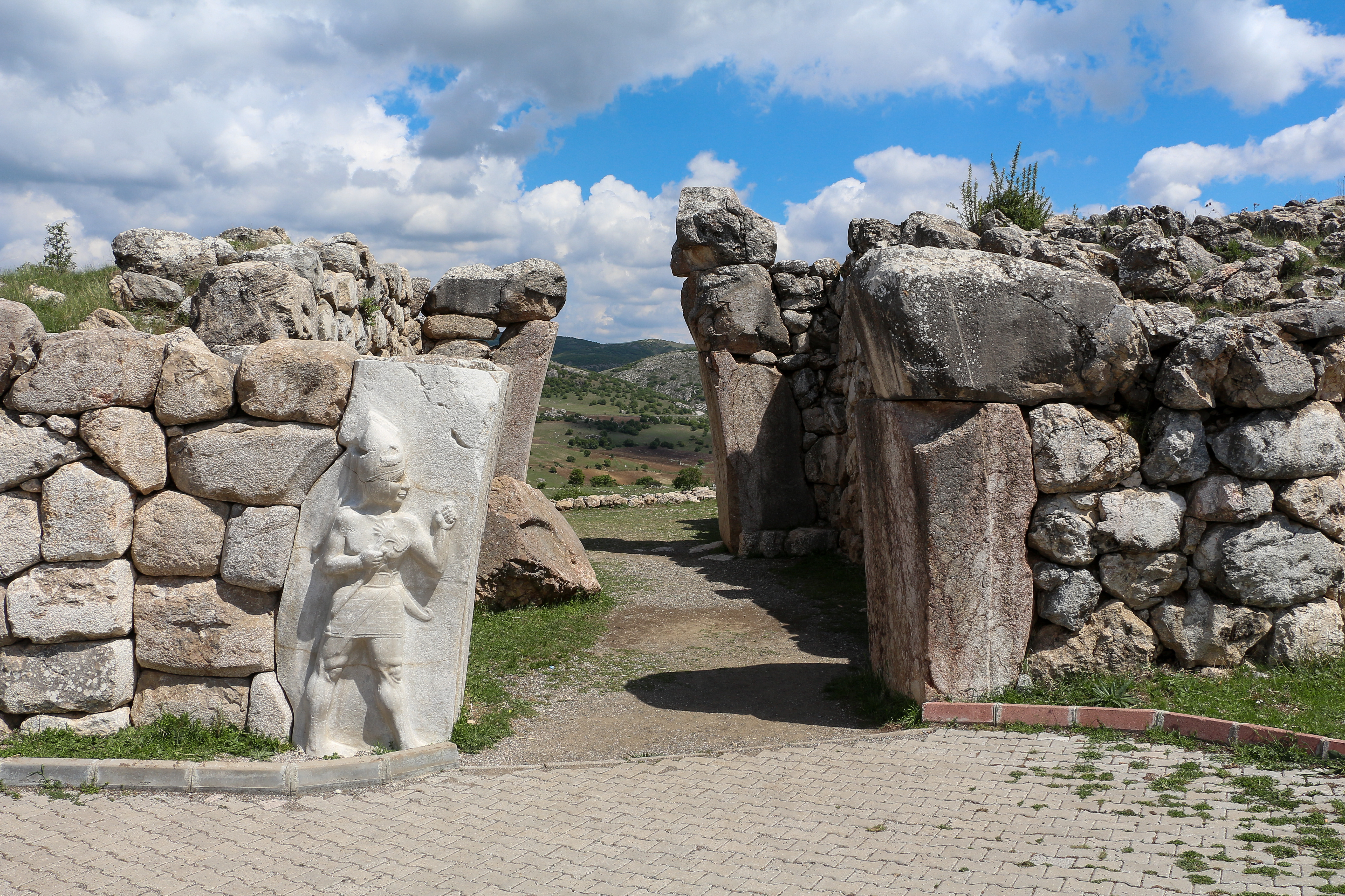 King's Gate, Hattusa, Turkey